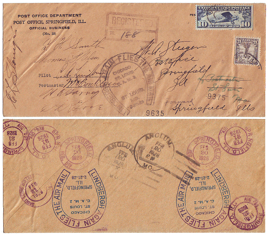 Flown, registered Springfield, IL, USPOD #13 Penalty Cover autographed by Charles A. Lindbergh and the five regular Robertson Aircraft Corporation CAM-2 pilots (L.H. Smith, E.L Sloniger, H.A. ("Bud") Gurney, T.P. Nelson, P.R. Love) who flew the mail on CAM-2 on February 20 & 21, 1928, on the "Lindbergh Again Flies The Air Mail" flghts, with all cachets and backstamps. The cover is addressed to William A. Steiger, the Assistant Post Master at Springfield, IL, who was in charge of Air Mail service there.